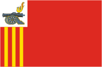 Smolensk (Smolensk oblast), flag